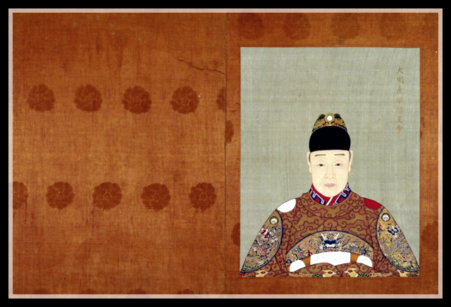 Portrait of Emperor Xizong of Ming Dynasty China